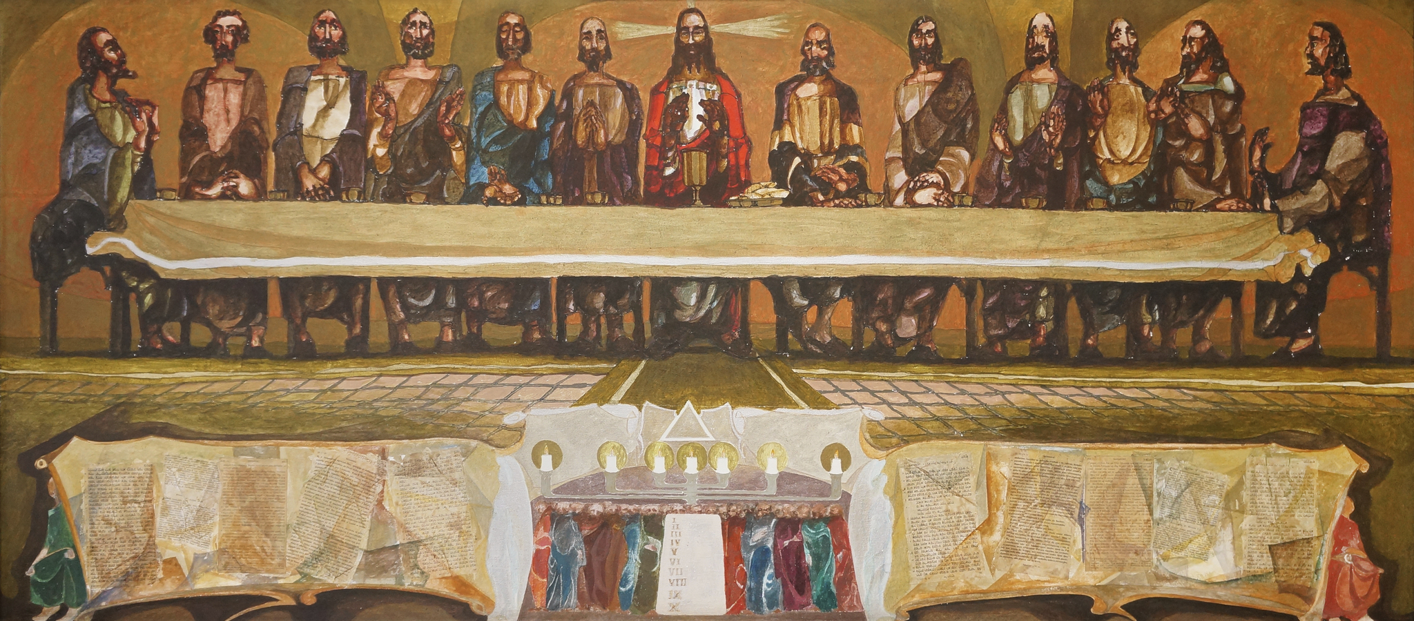 Oil on canvas and collage.